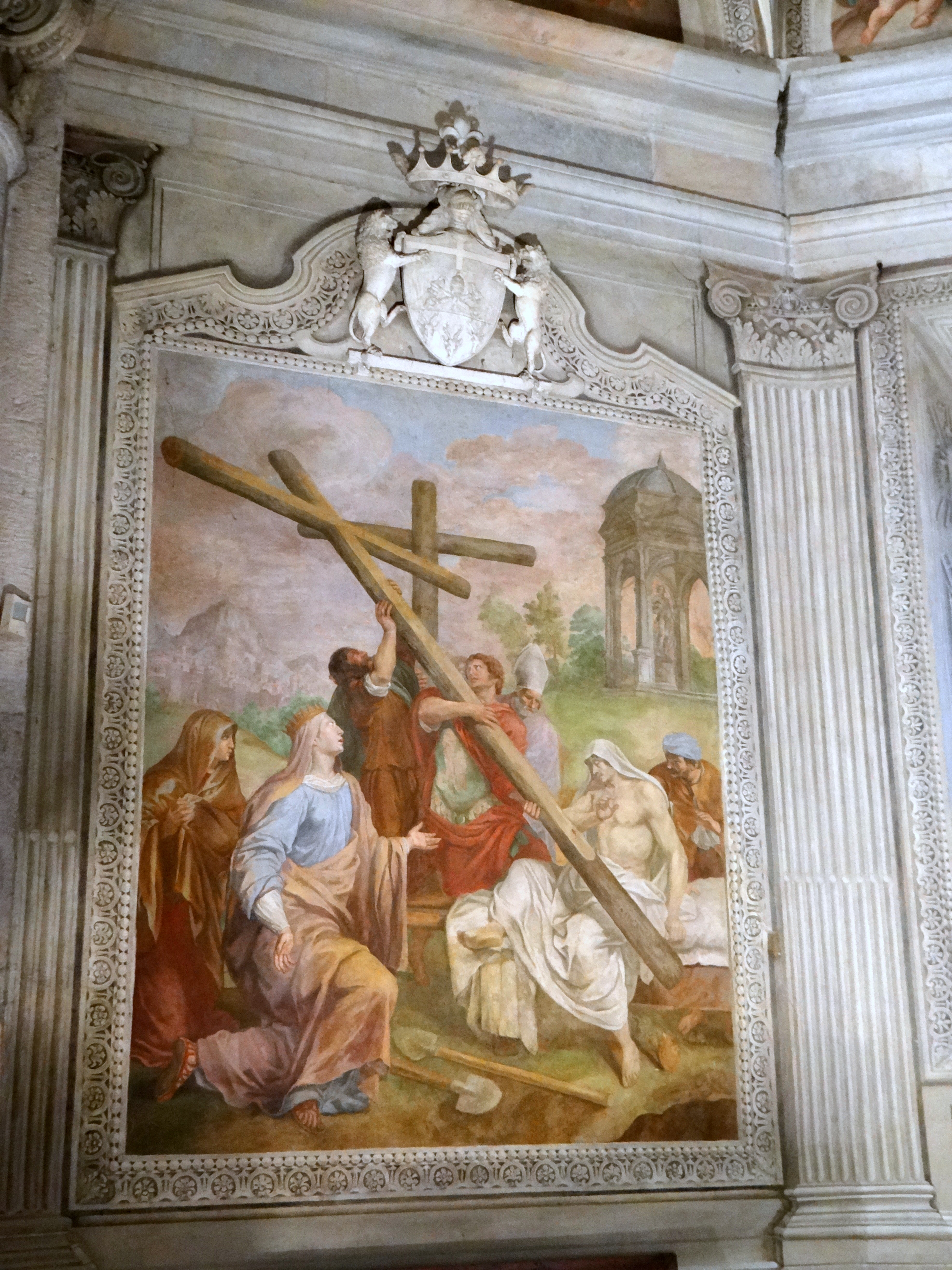 The Invention of the True Cross by Pieter van Lint, Santa Maria del Popolo (after 1636)